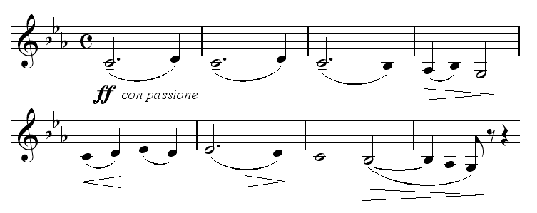 Thème du premier mouvement du concerto pour piano n° 2 de Serguei Rachmaninov (aux cordes) Principal theme of the first movement of Rachmaninov's piano concerto No. 2 (strings)